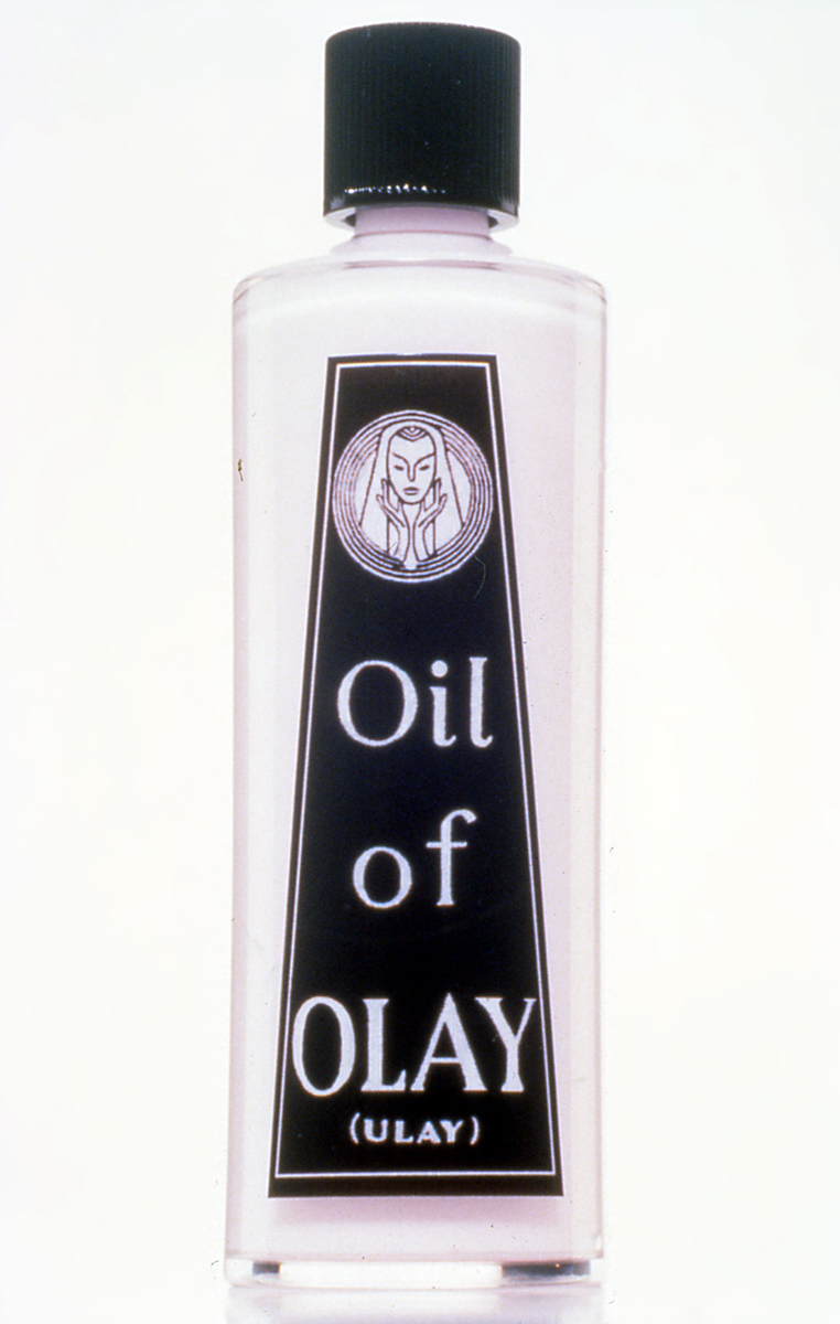 1952 Oil of Olay package and bottle design